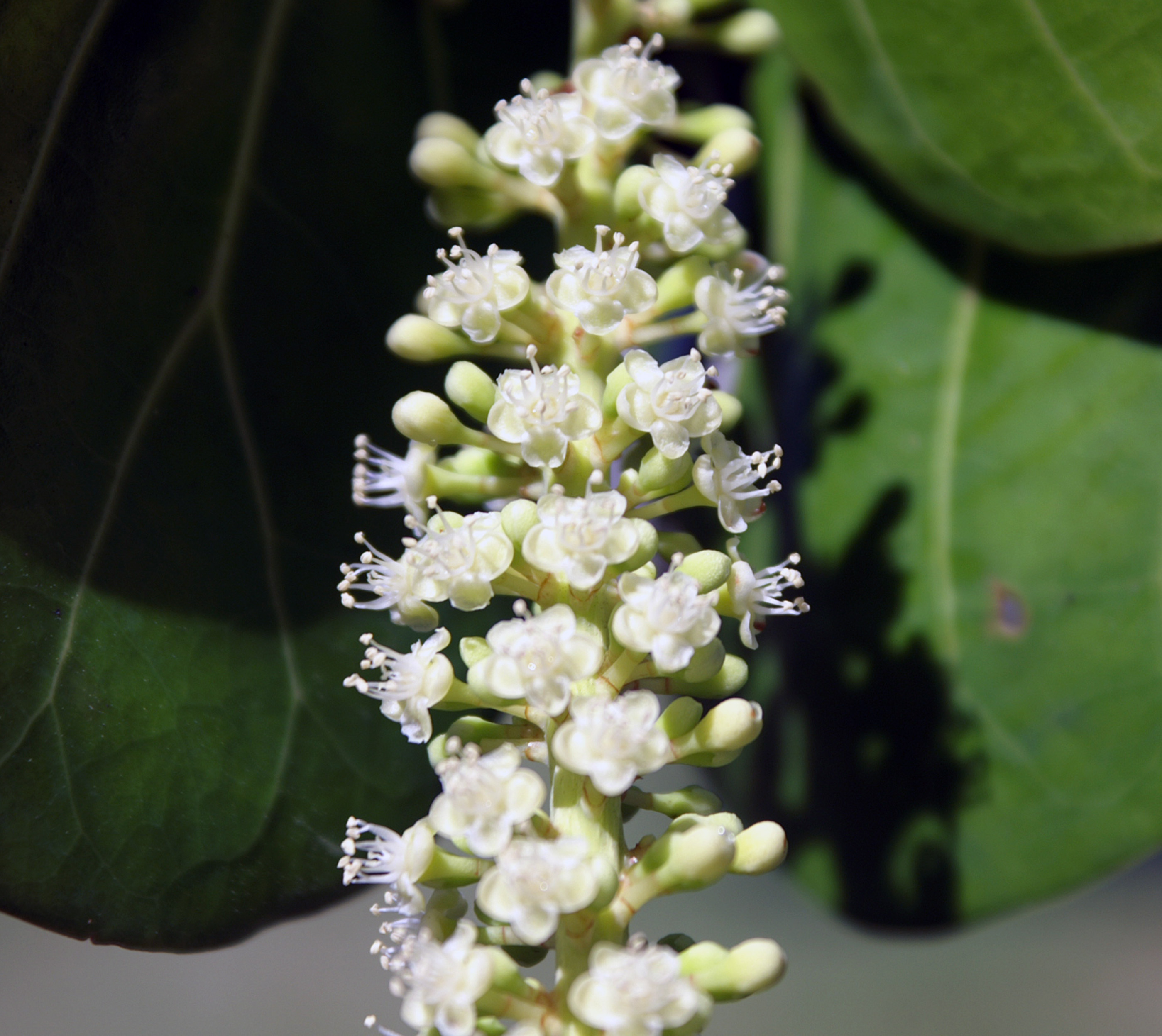 Flower of Coccoloba uvifera / Flor de Uva de playa / Sea Grape Flower/ Fleurs de Raisin de bord de mer.